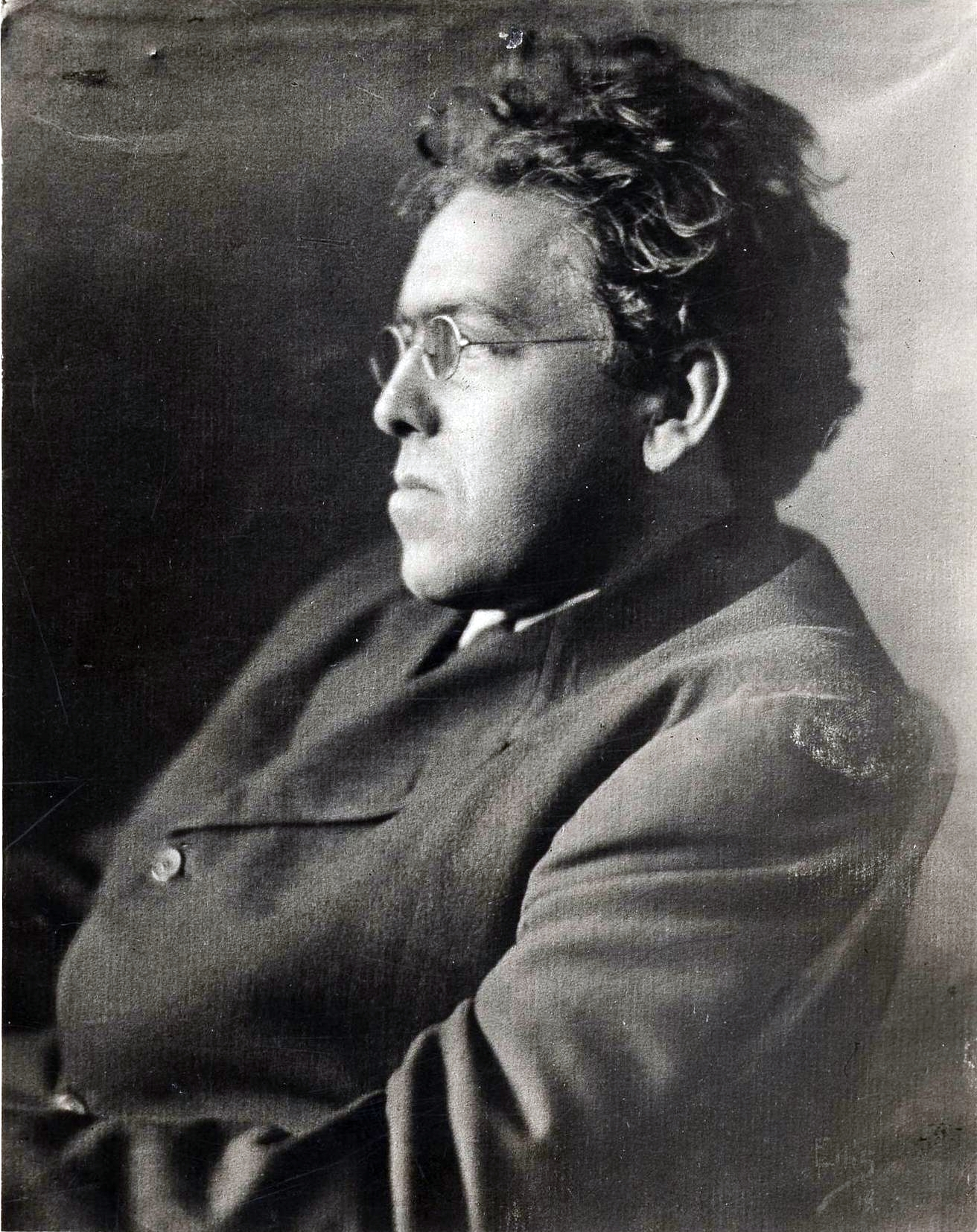 Wyeth in a side pose.